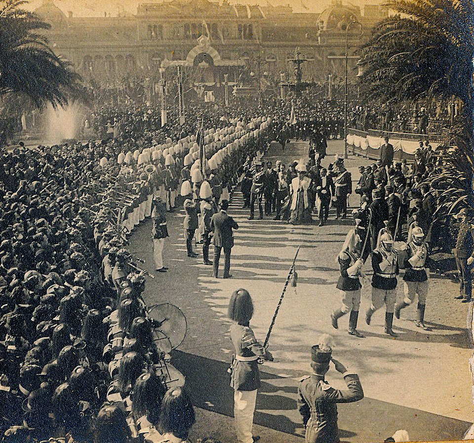 Fiesta del Centenario en Buenos Aires, la Infanta Isabel de Borbón revistando las tropas.